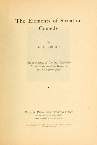 Cover of Al E. Christie, The Elements of Situation Comedy (1920).